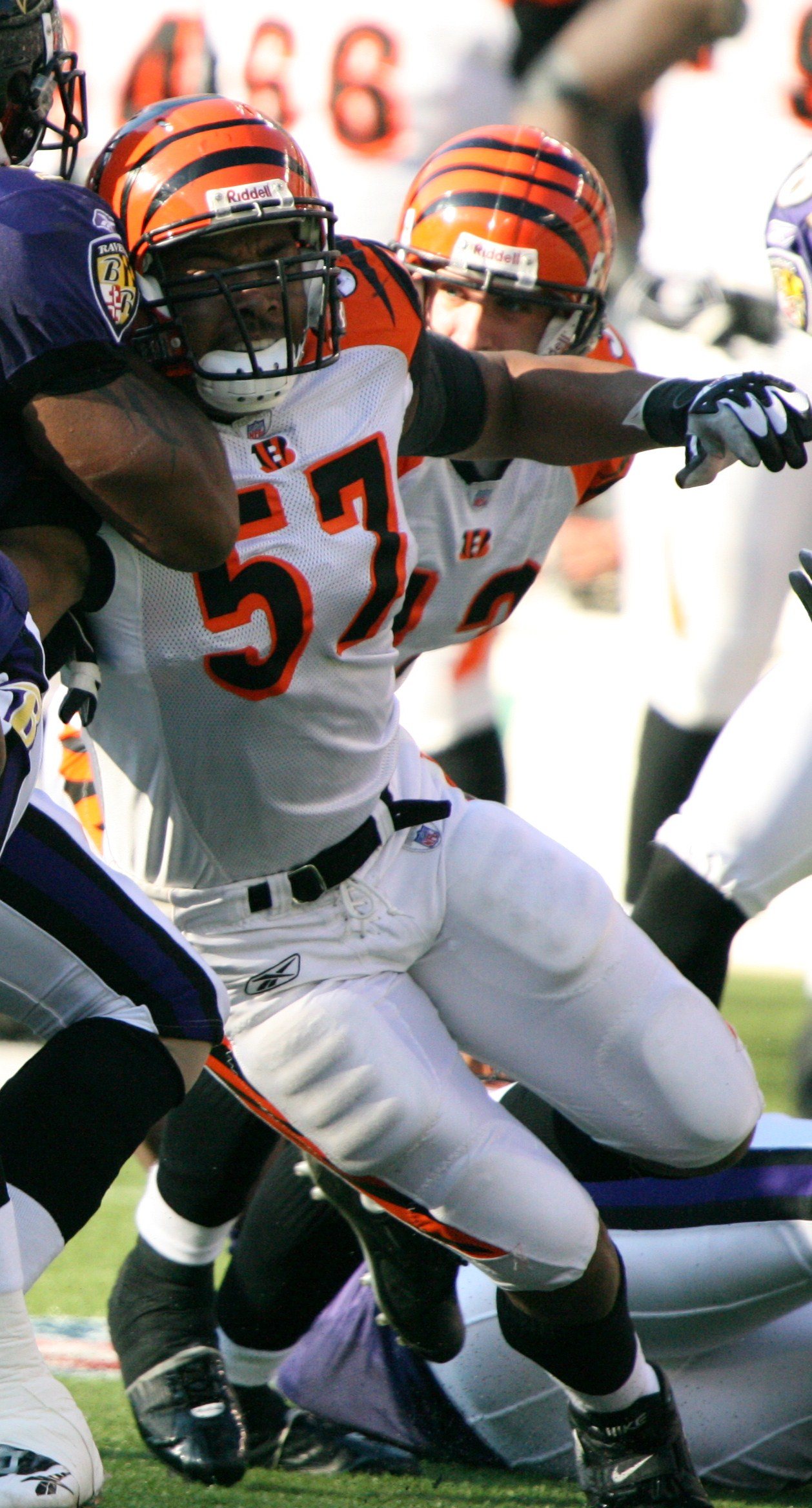 Andre Frazier when he was with the Bengals